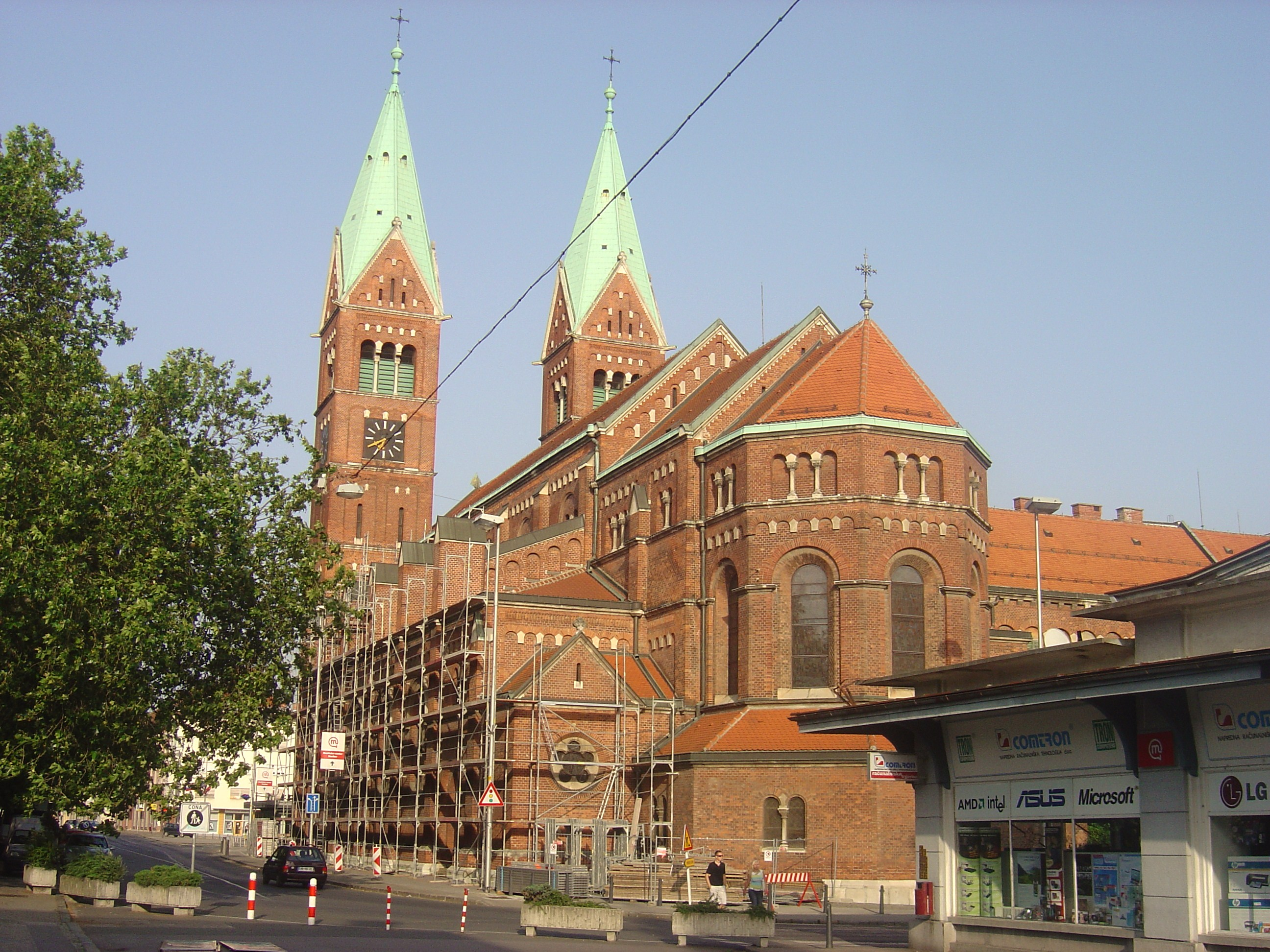 Maribor, Slovenia